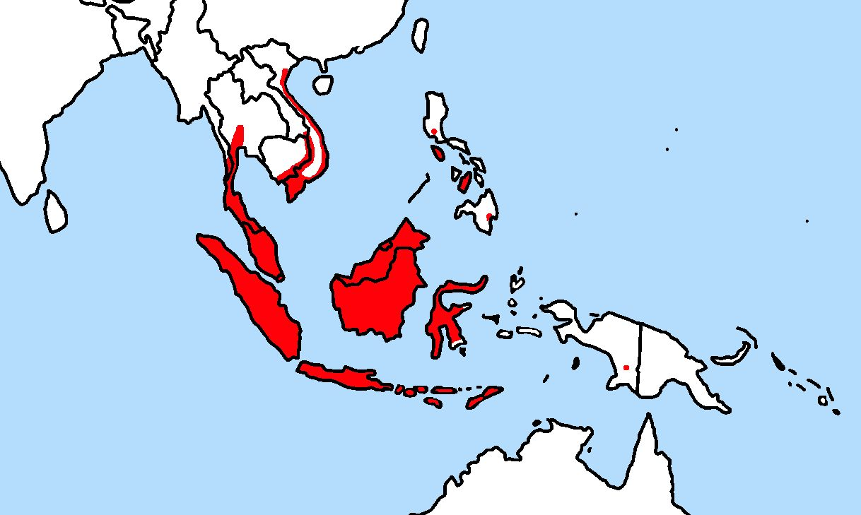 Rice field rat (Rattus argentiventer), distribution map